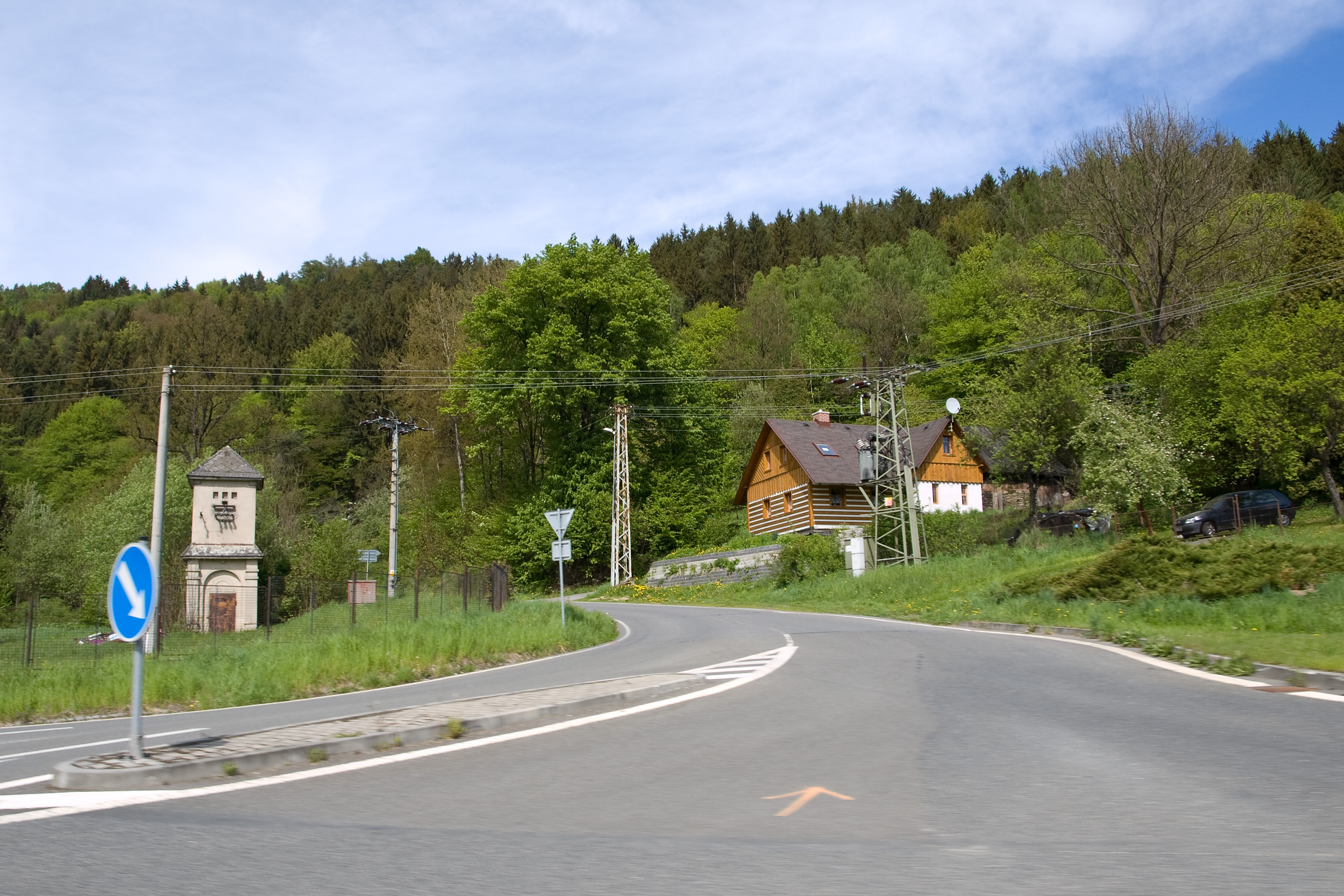 Czech village Splzov (administrative part of town Železný Brod